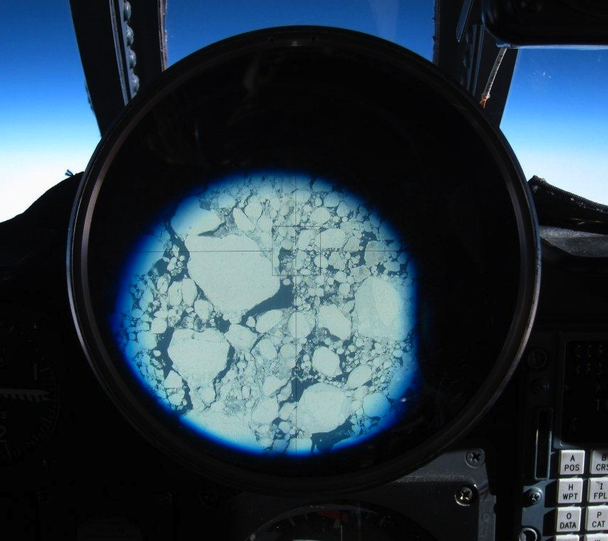 The partially broken sea ice pack below NASA's ER-2 can be clearly seen through the pilot's cockpit viewing sight during one of the MABEL laser altimeter validation flights. For more information go to